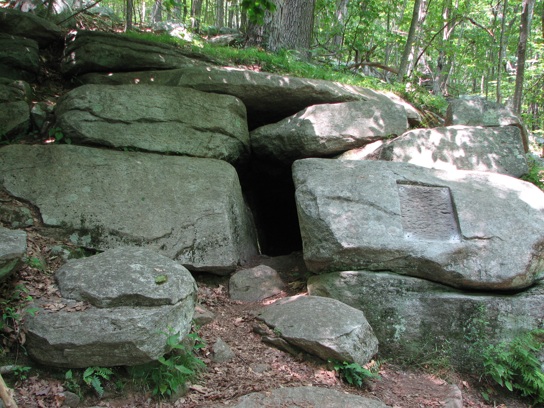 Israel Putnam Wolf Den, Off Wolf Den Rd. in Mashamoquet Brook State Park Pomfret